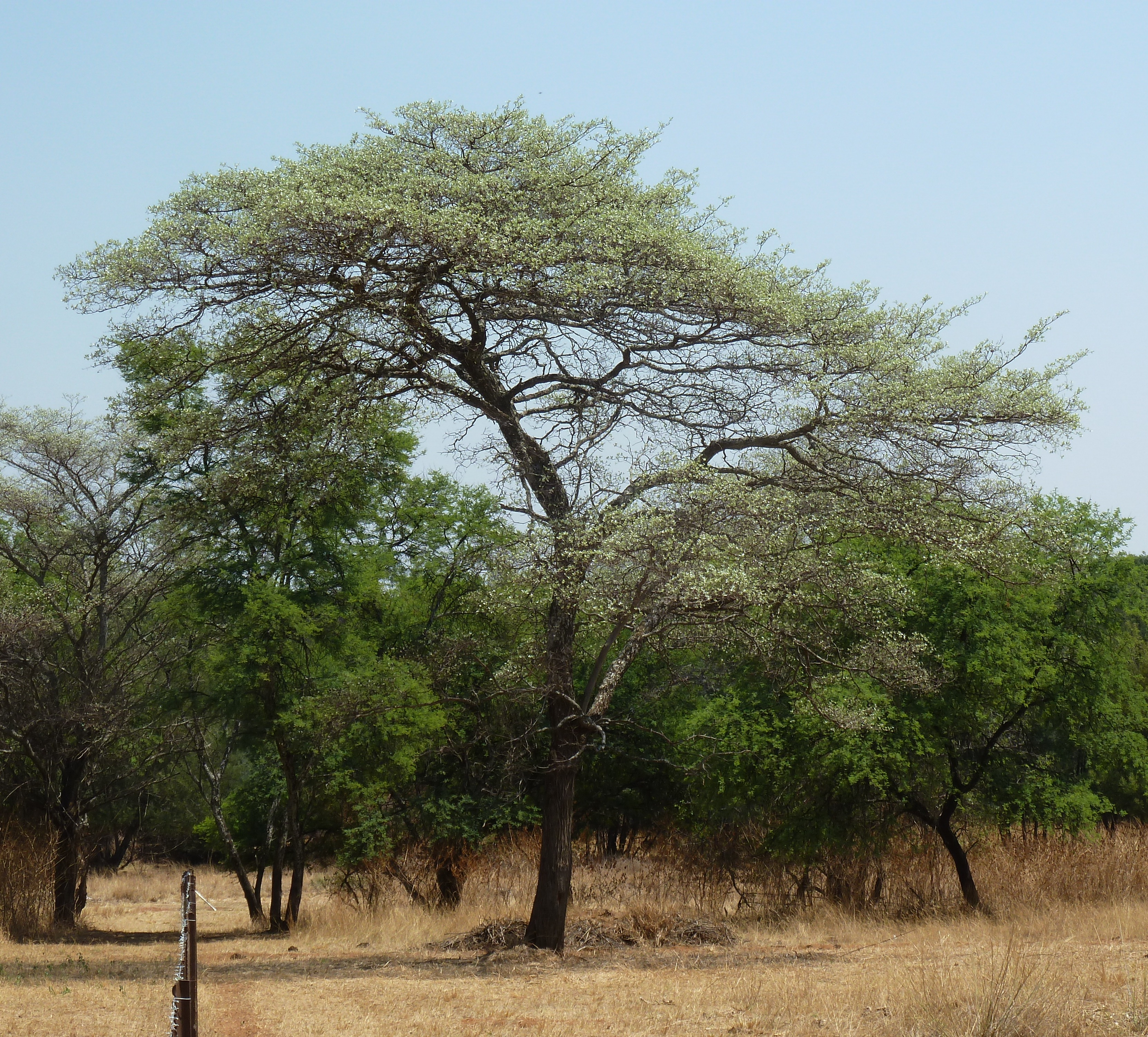 Silver cluster-leaf at Seringveld near Pretoria